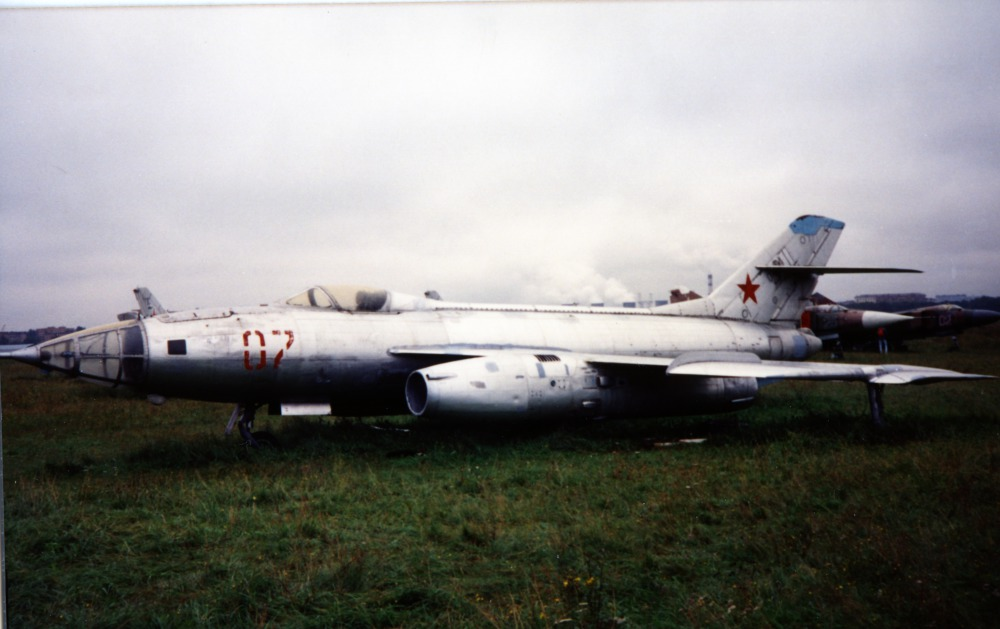 Yakovlev Yak-27 at Khodinka Air Force Museum. September 1993